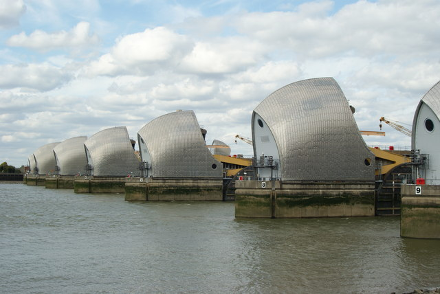 Thames Barrier Piers No.3 to No.9 can be seen in this photograph; taken up river from the Thames Barrier.